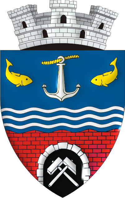 Coat of arms of Văliug, Romania